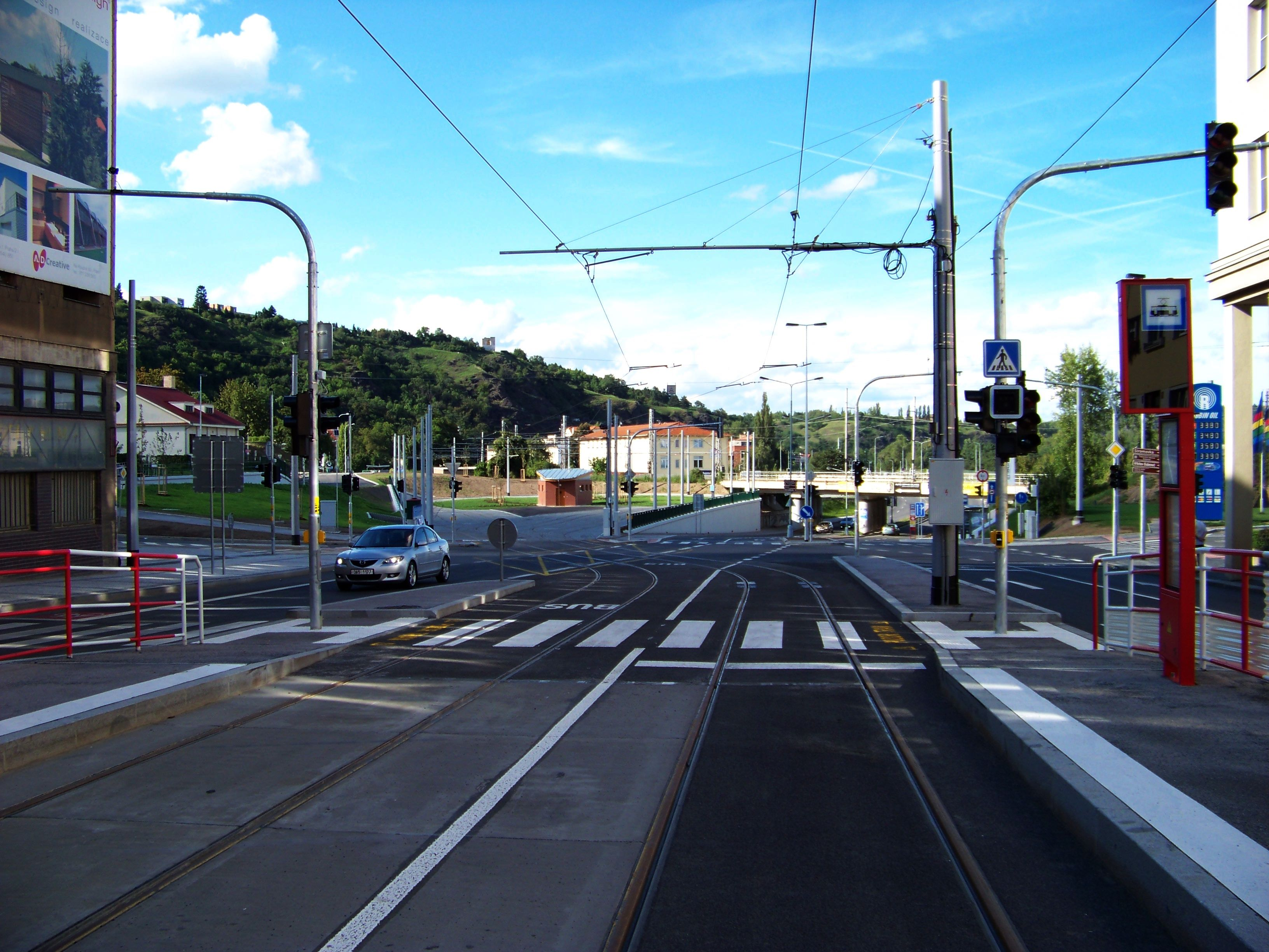 Prague-Dejvice and Bubeneč, the Czech Republic. Podbabská street, a new tram stop and loop Podbaba.